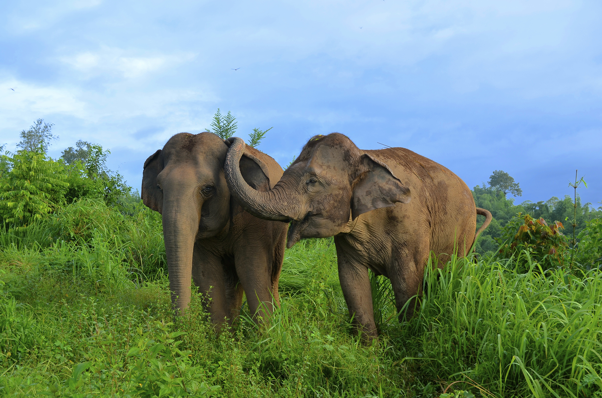 Physical contact between elephants following distress included trunk touches to the genitals, mouth and the rest of the head (as seen here), photo taken at the Golden Triangle Asian Elephant Foundation, Chiang Rai, Thailand